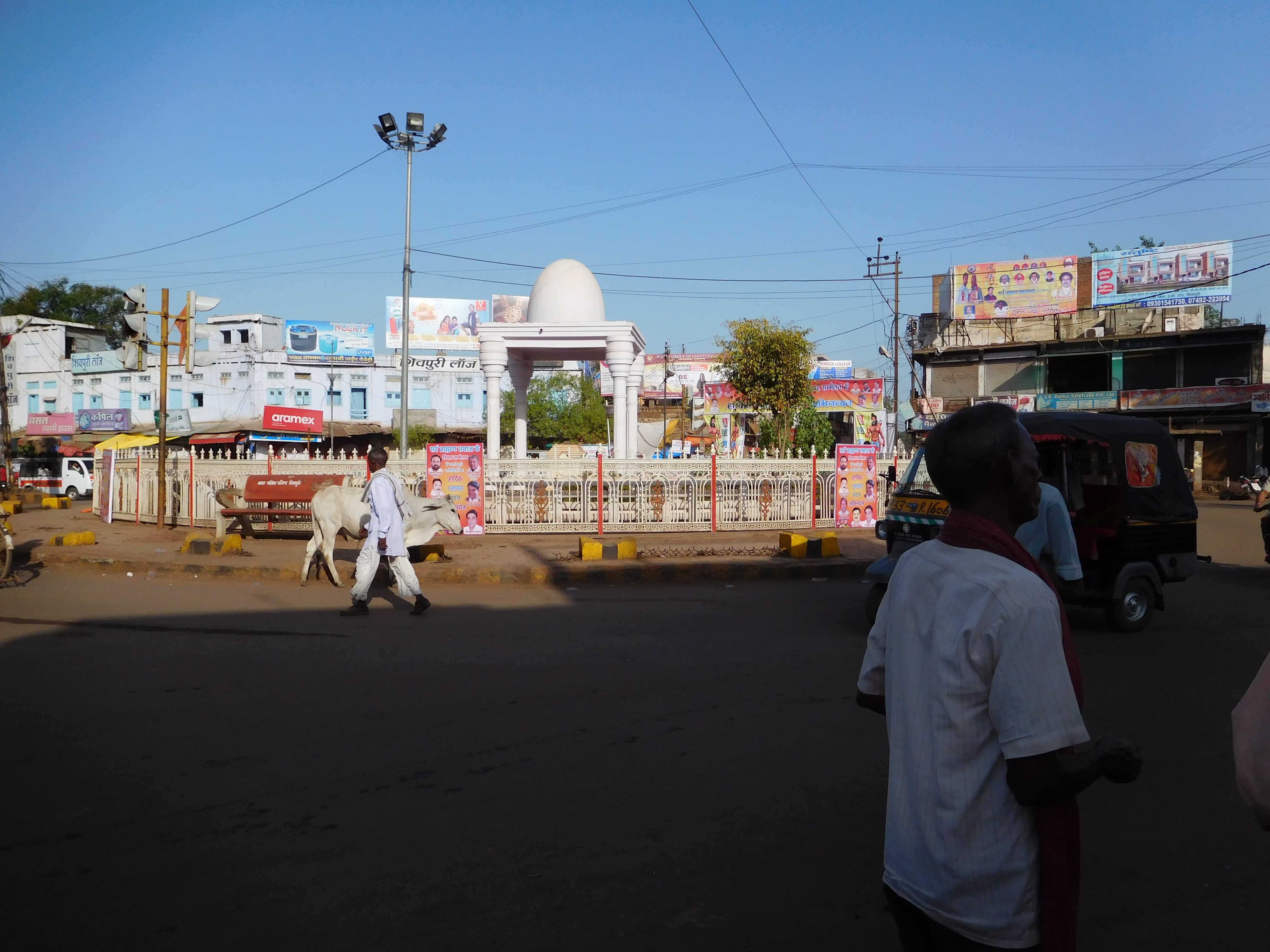 Madhav Chauk ,Shivpuri,Madhya Pradesh,India